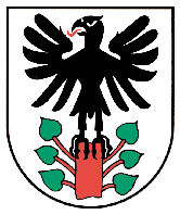 Coat of arms of Steinen, Canton Schwyz, Switzerland